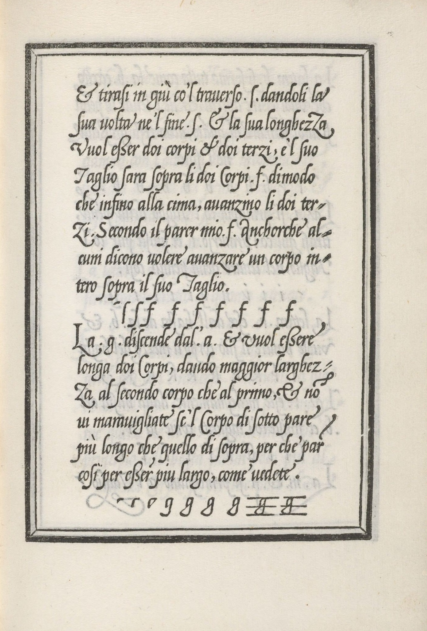 Page C3 from Libro nvovo d'imparare a scrivere tvtte sorte lettere antiche et moderne di tvtte nationi: con nvove regole misvre et essempi : con vn breue & vtile trattato de le cifere / composto per Giouambattista Palatino cittadino romano by Giovanni Battista Palatino, Rome: 1540. TypW 525.40.671, Houghton Library, Harvard University